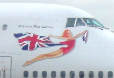 Crop of Virgin Atlantic Boeing 747 showing tag "Britain's flag carrier" with English Rose nose art